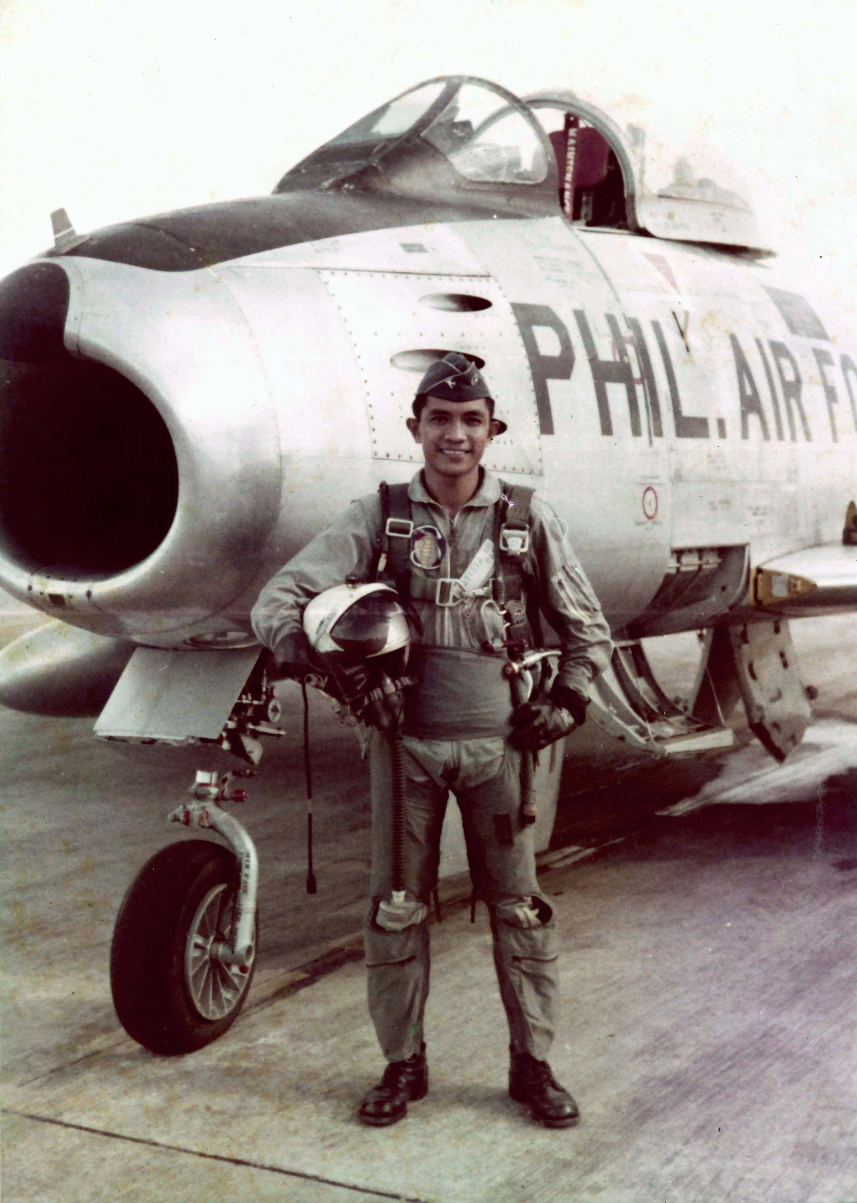 Captain Antonio Bautista in front of his F-86 Sabre Jet Fighter